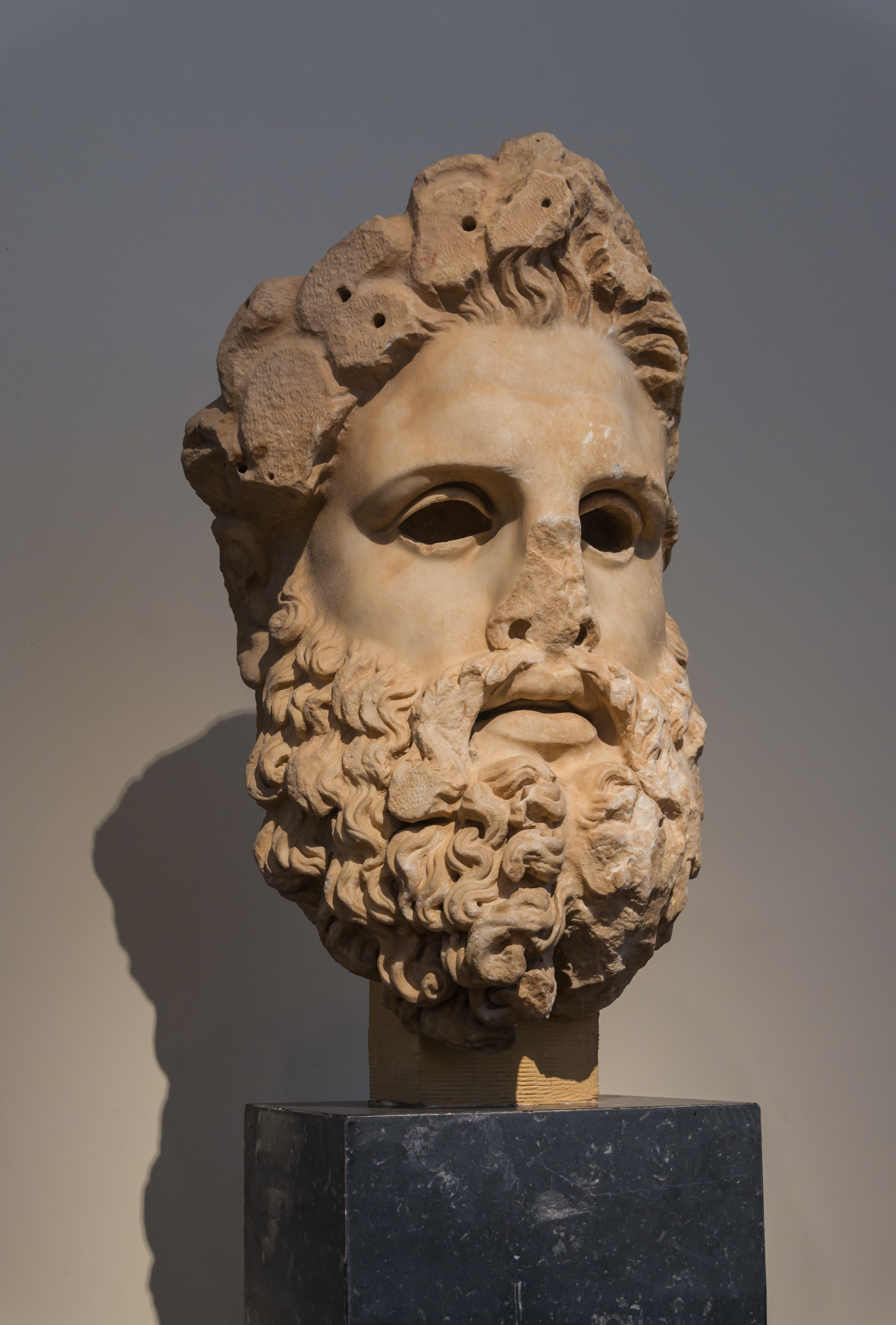 Colossal head of Zeus. Marble. Found at Aigeira, Achaia. The head belonged to a larger than life-size cult statue of the god, carved by the athenian sculptor Eukleides, according to Pausanias. Second Half of the 2nd-century BCE. N° 3377